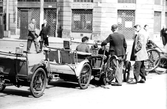 Warsaw Rickshaws.